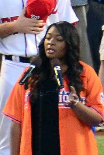 Candice Glover singing the National Anthem at Citi Field in Queens, New York City